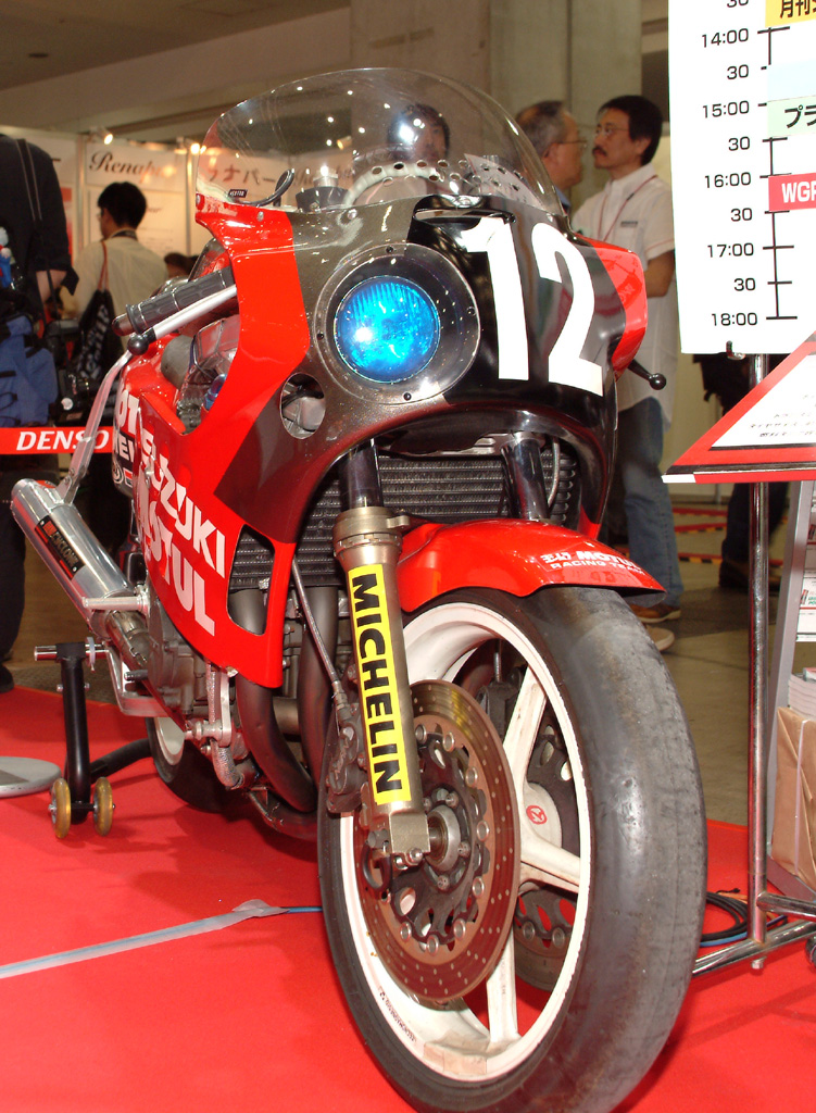 Yoshimura Suzuki GSX-R750 (Suzuka 8h 1986, Kevin Schwantz / Satoshi Tsujimoto)